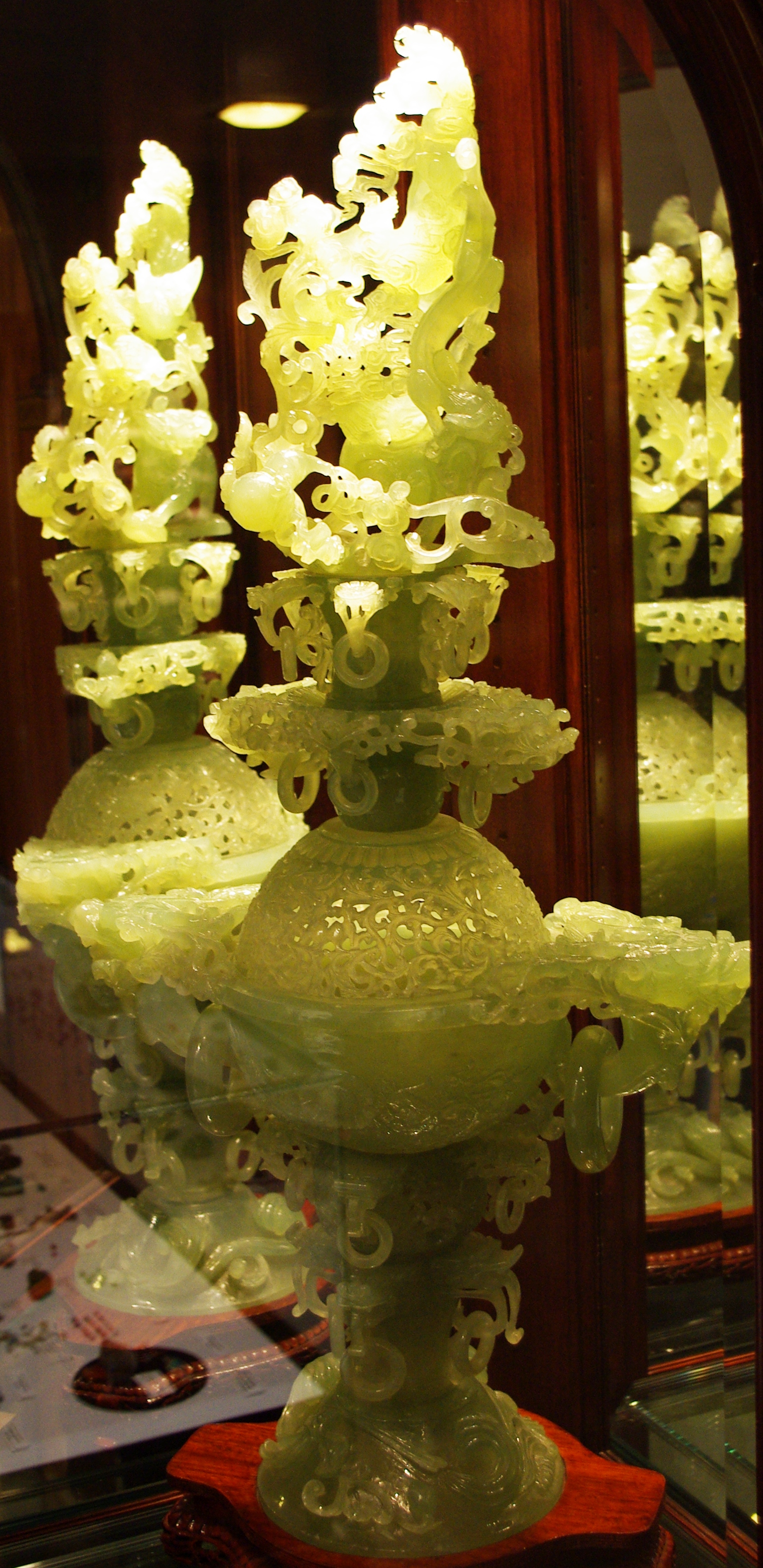 On display at the Rice Northwest Museum of Rocks and Minerals in Hillsboro, Oregon, USA.